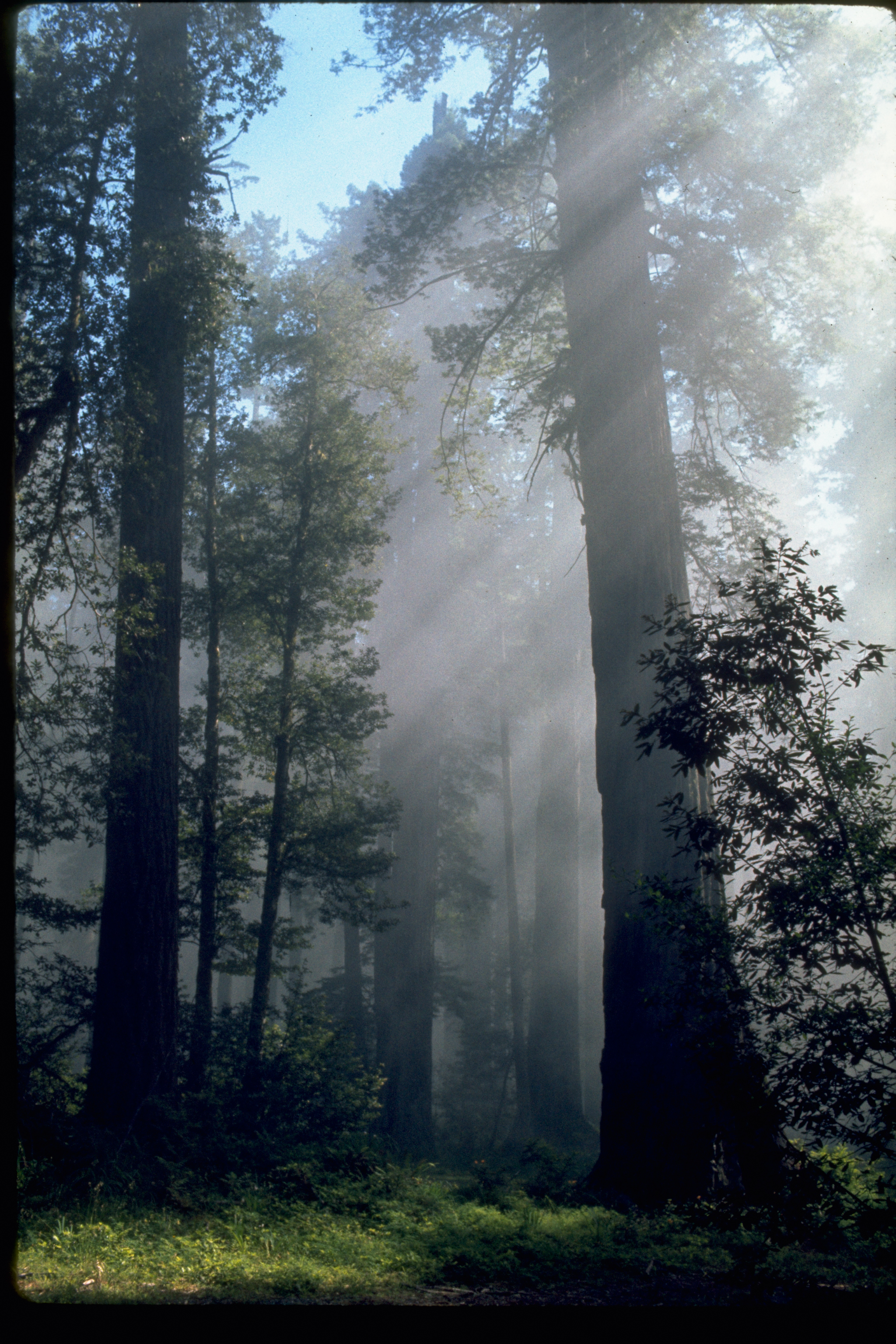 Coastal redwood forests with virgin groves of ancient trees, including the world's tallest, thrive in the foggy and temperate climate. The park includes 40 miles of scenic Pacific coastline.